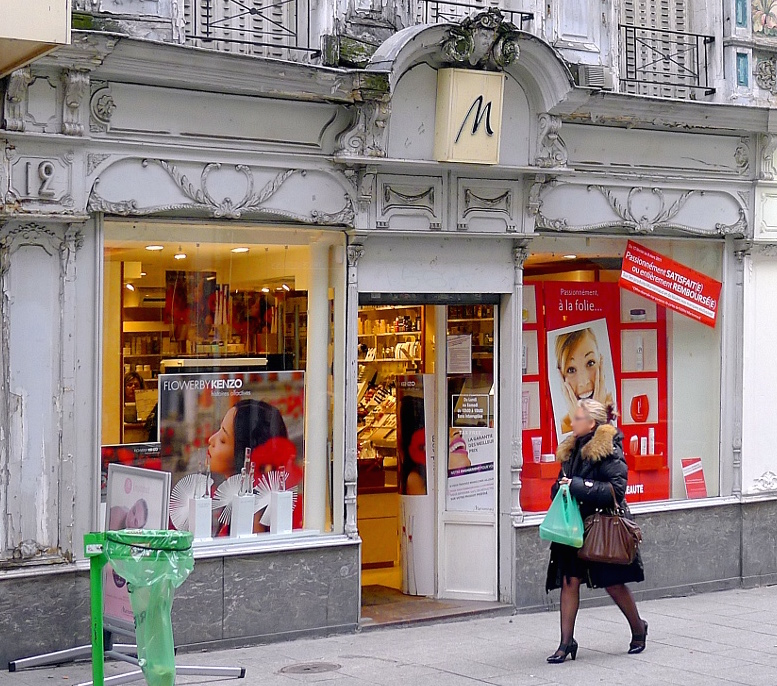 Marionnaud cosmetics store in Paris